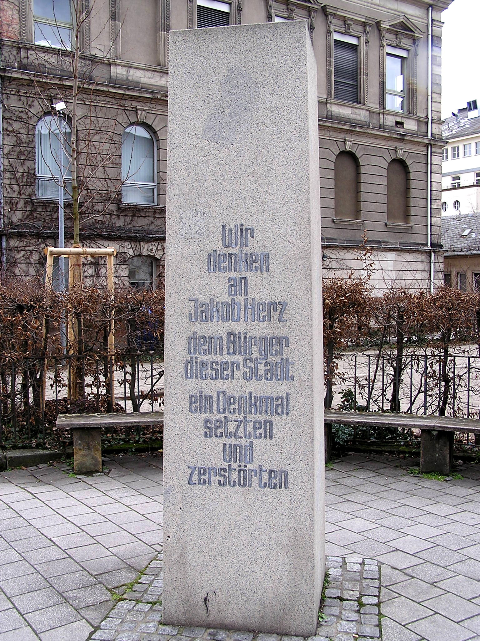 Memorial to Jakob Herz in Erlangen: "We remember Jakob Herz, whose memorial was built and destroyed by citizens of this city."